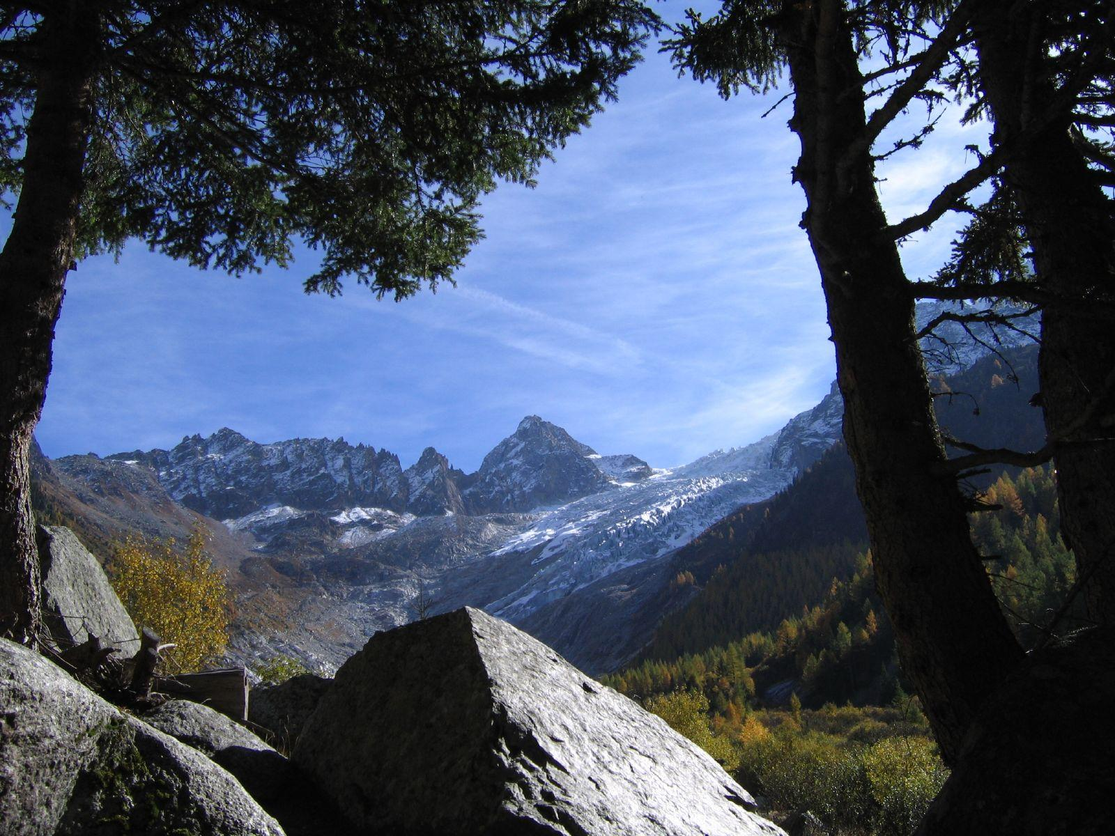 The Trient valley and the Trient glacier